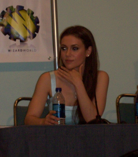 Photo of actress Alyssa Milano taken by myself User:Artemisboy taken at the Los Angeles Wizard World comic book convention.